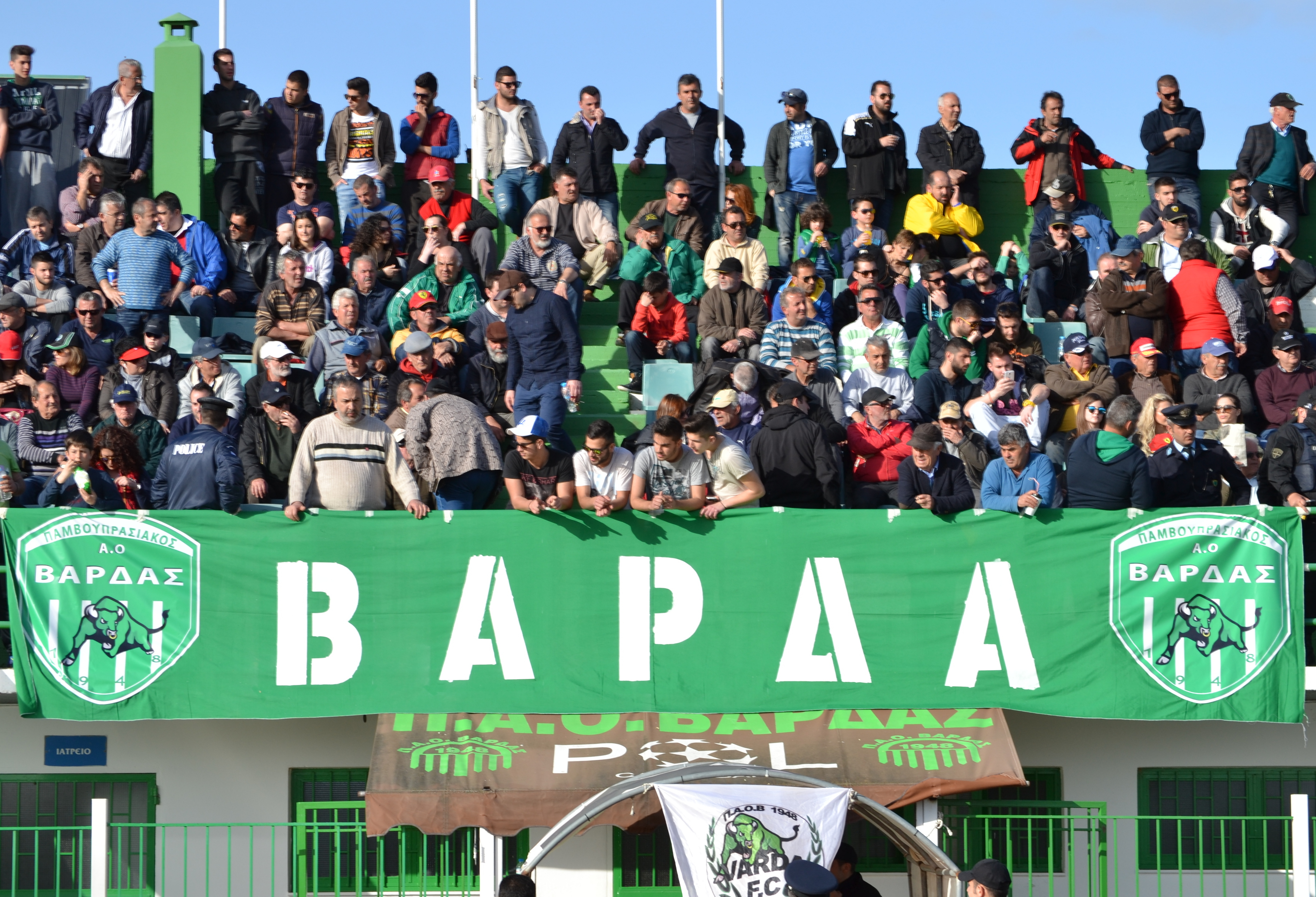 GRIGORIS KALAKOS STADIUM